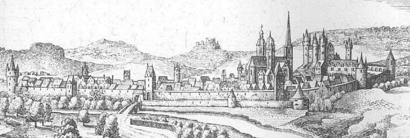 This is a scan of the historical document: Title: Herborn - Topographia Hassiae language: german